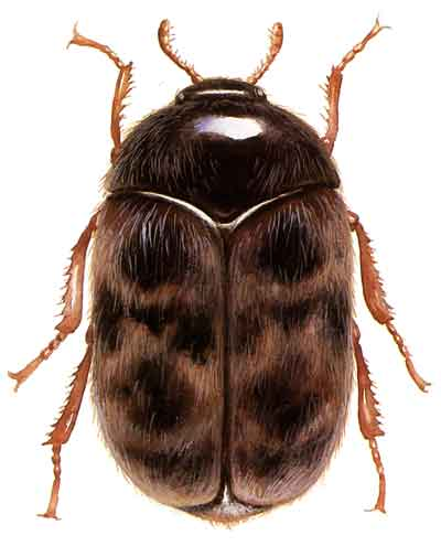 Trogoderma granarium (Khapra beetle) photographed by the US Department of Agriculture.